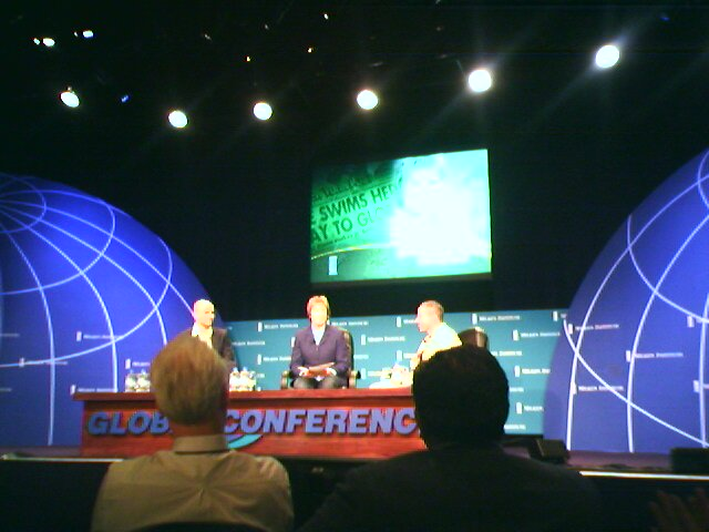 Agassi, Nyad, and Armstrong in a global conference